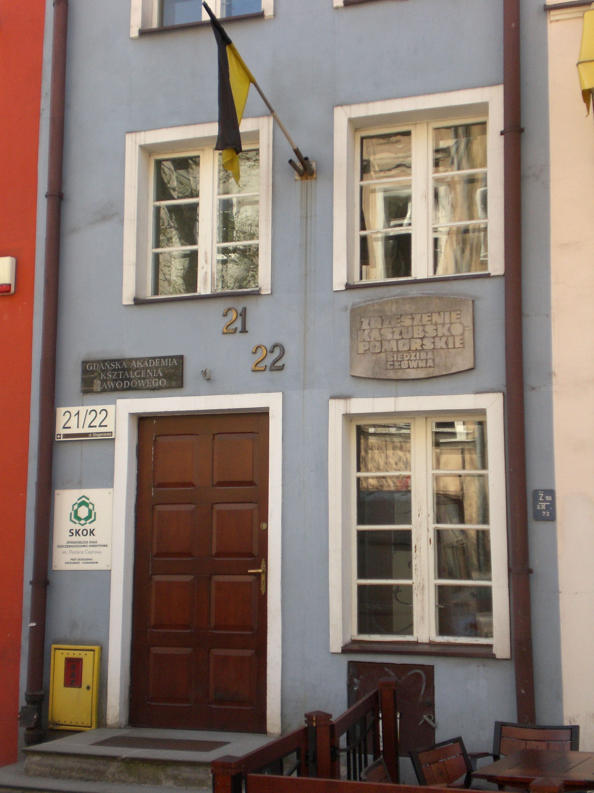 Gdańsk - Kashubian-Pomeranian Association